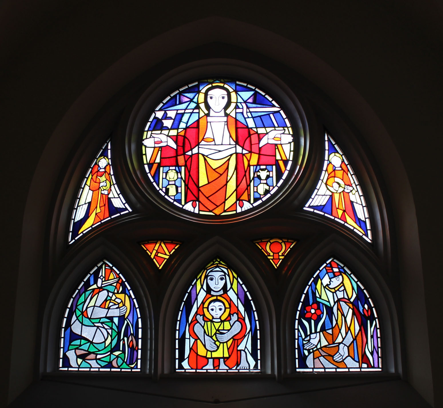 Jäts new church.Stained glass by artist David Ralson